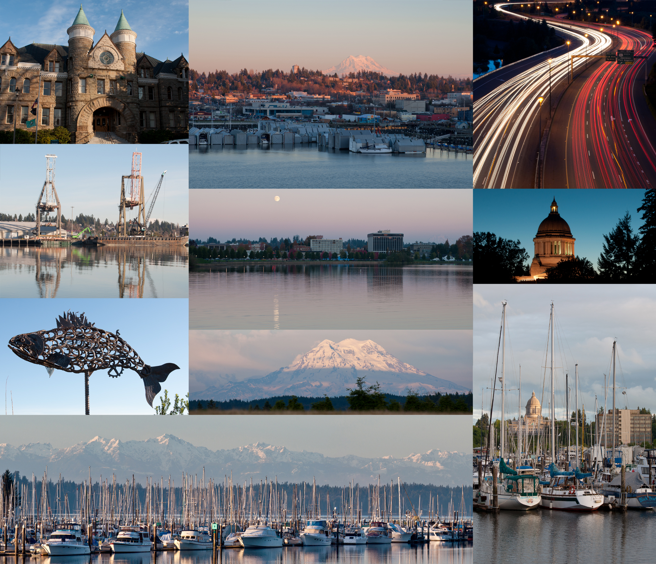 Olympia, Washington Collage